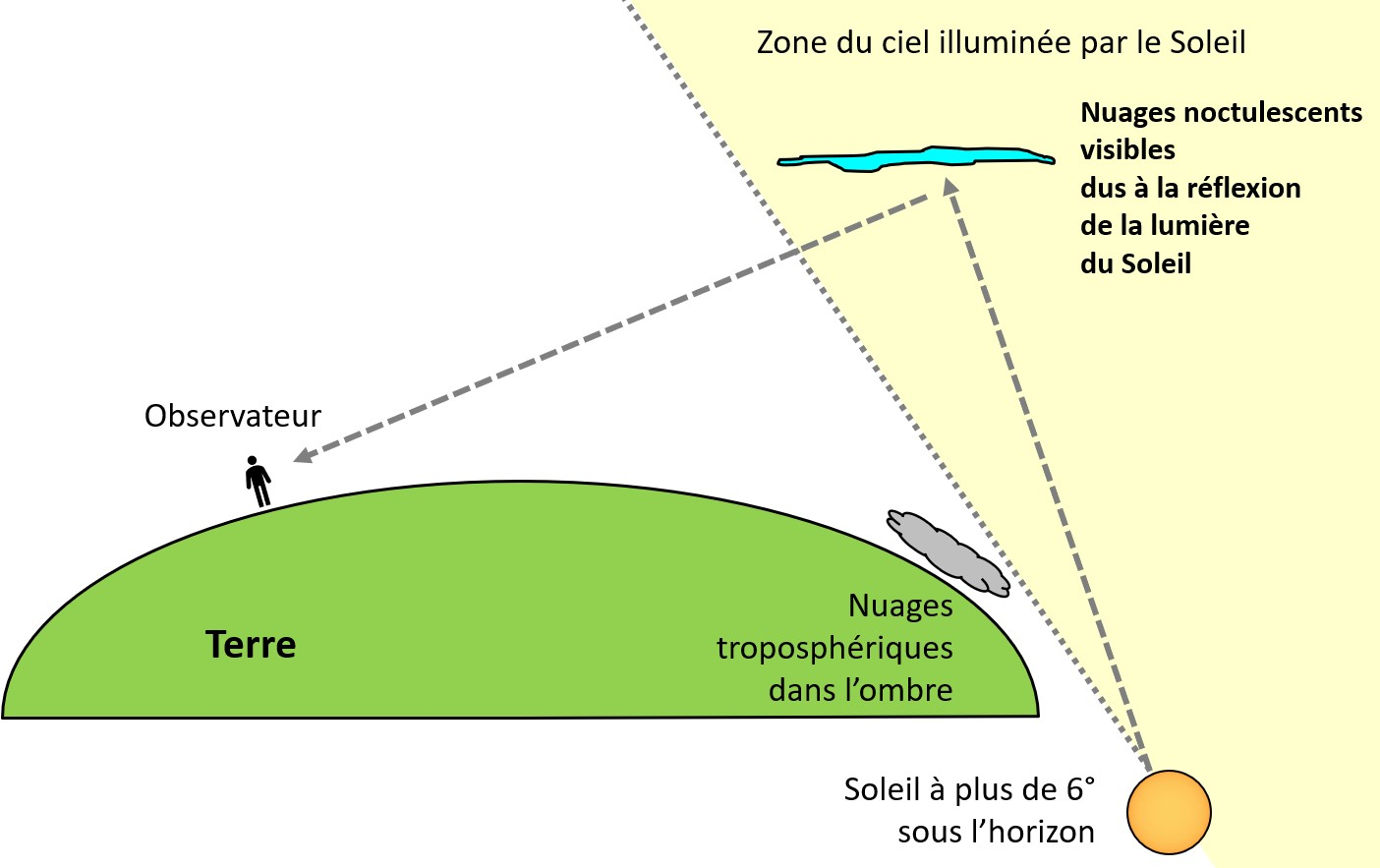 Translation in french of a picture representing noctilucent clouds